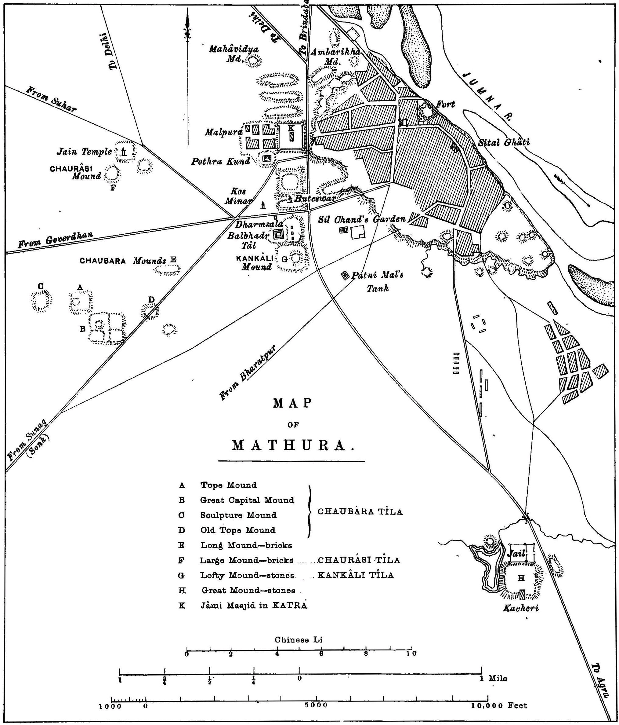 Mathura archaeological sites